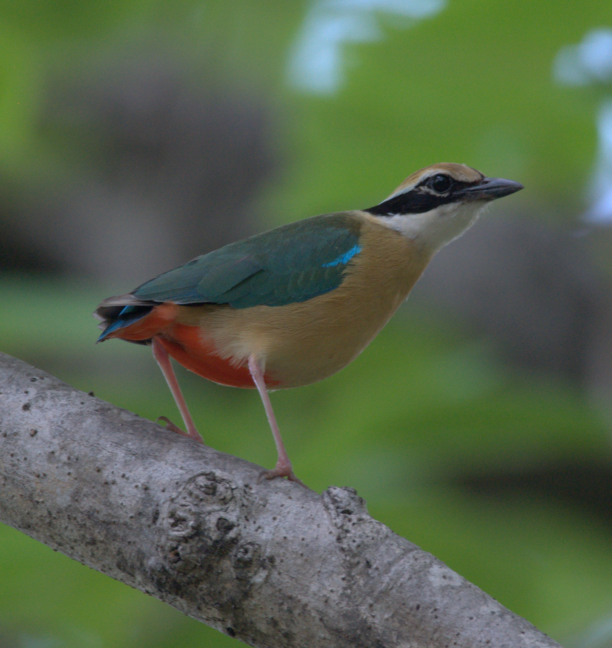 Indian Pitta Pitta brachyura, Sitabani, Uttarakhand, India